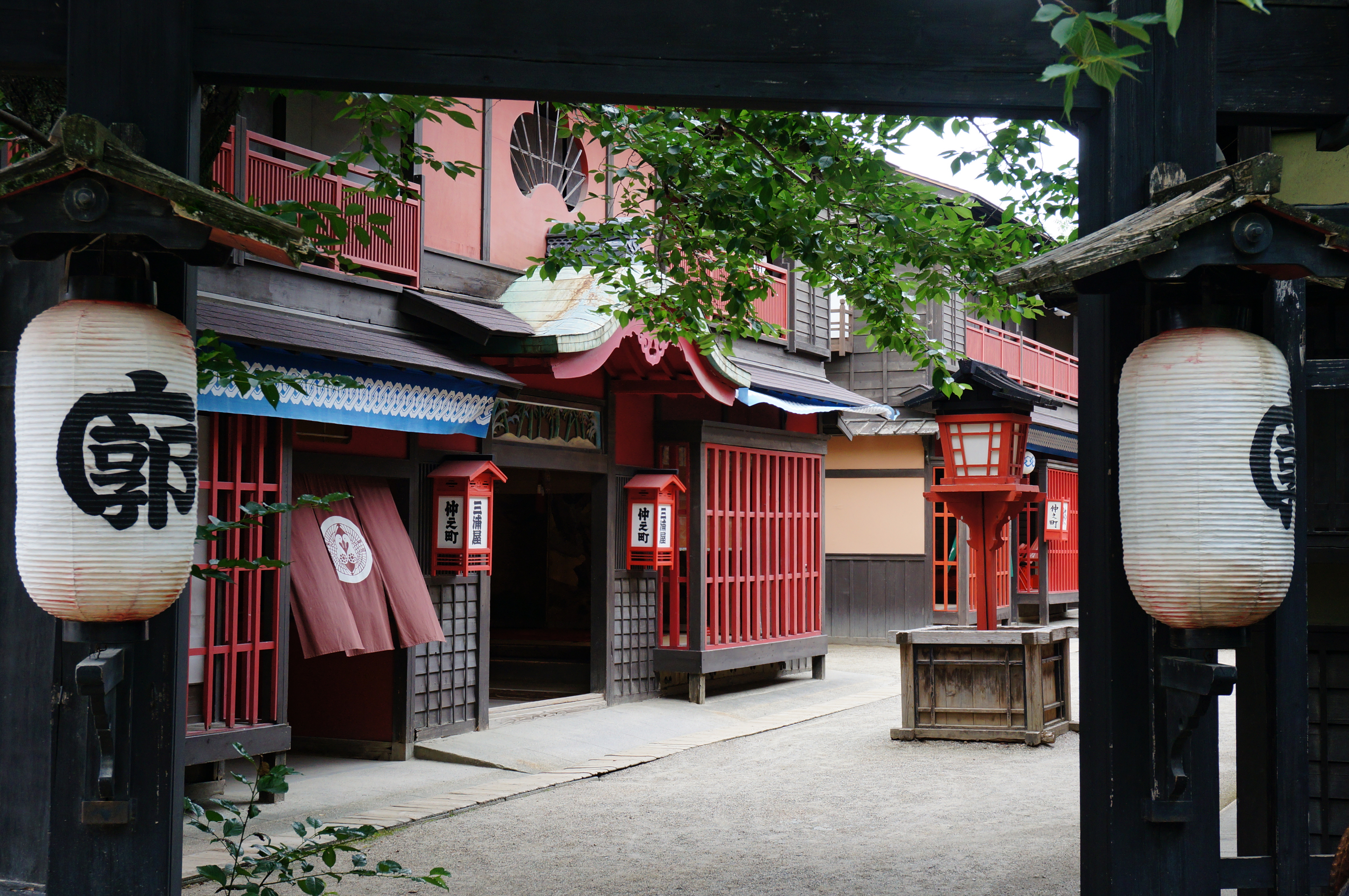 Toei Kyoto Studio Park in Ukyō-ku, Kyoto, Kyoto Prefecture, Japan.